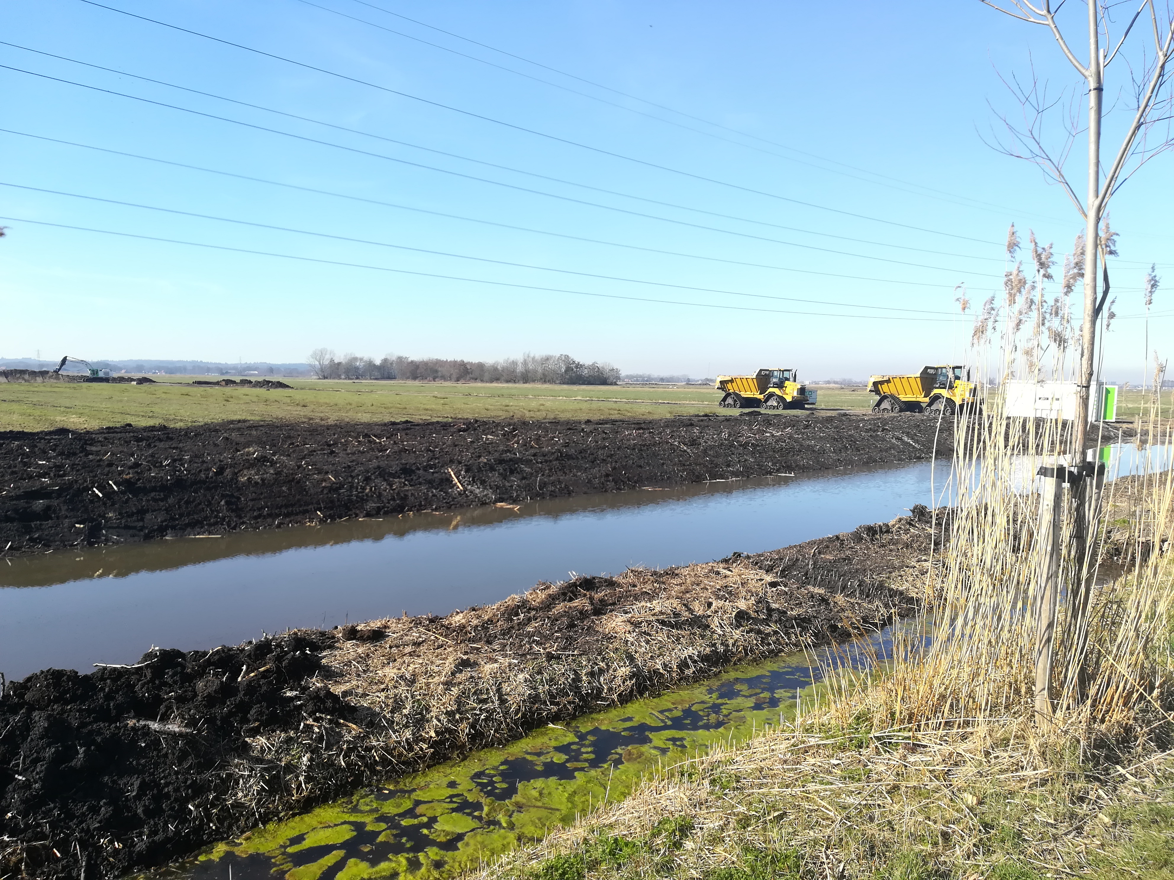 Reconstruction landscape between Grift and Veensteeg